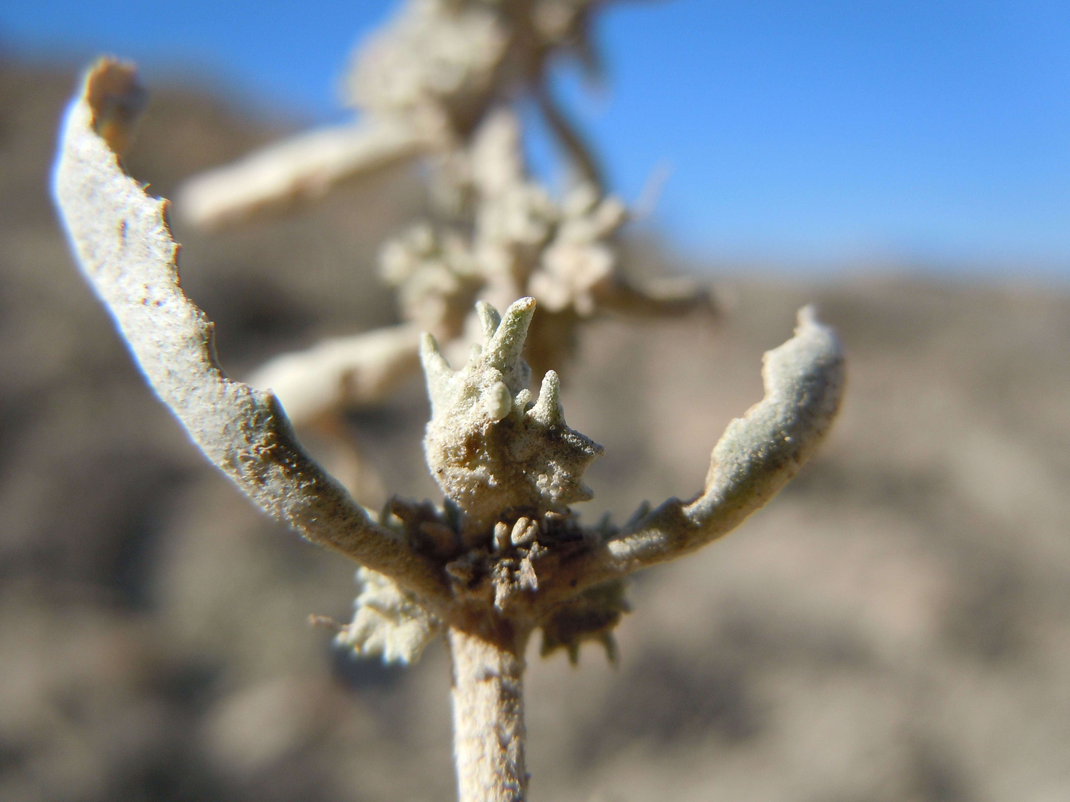 Usually each of the paired bracts bears a winged mid rib rendering a small 4-winged propagule or diaspore.